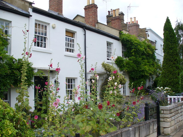 Old Palace Lane Regency terrace from about 1810 in the lane connecting Richmond Green and Thames.